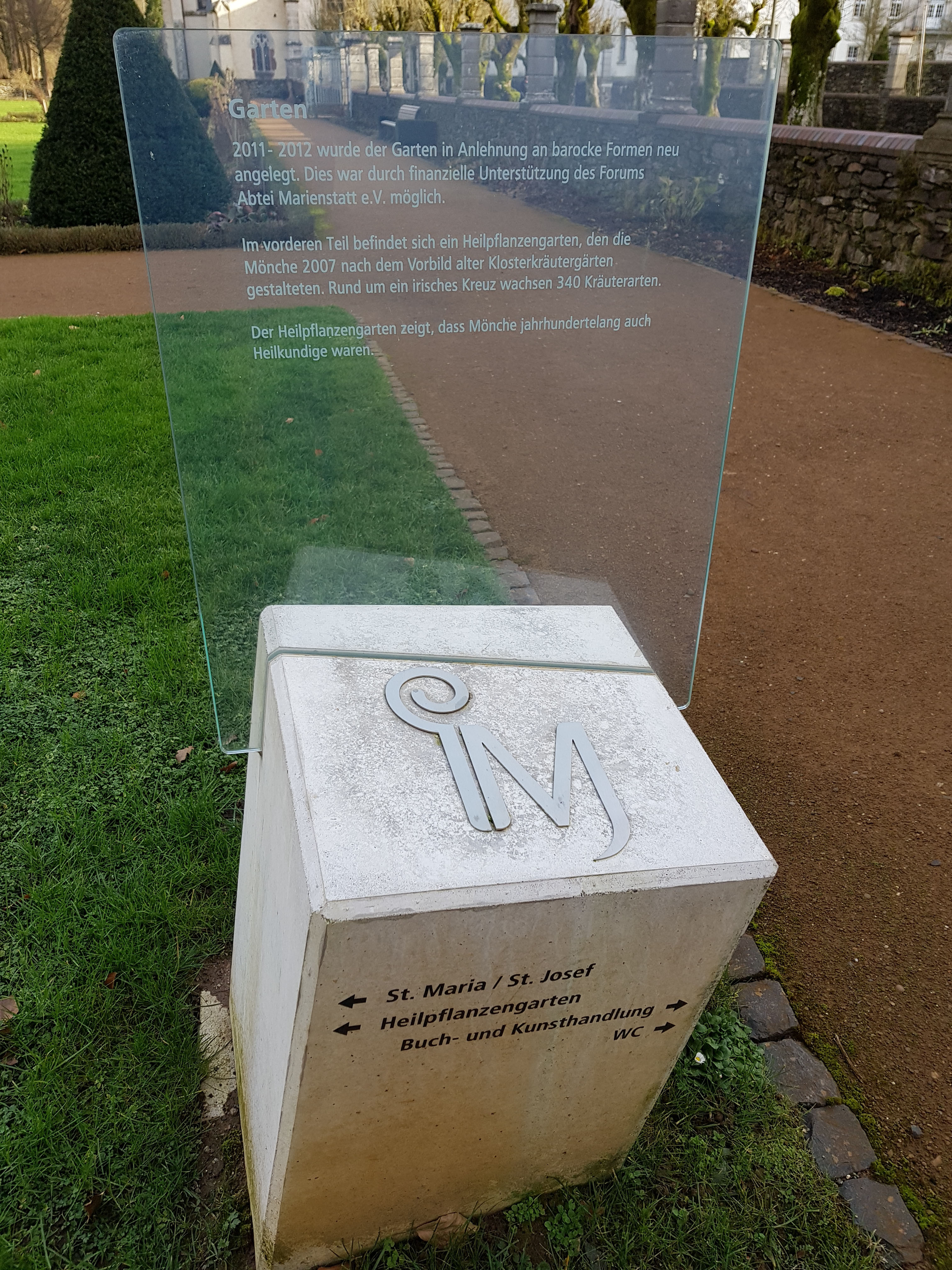 Leitsystem Marienstatt